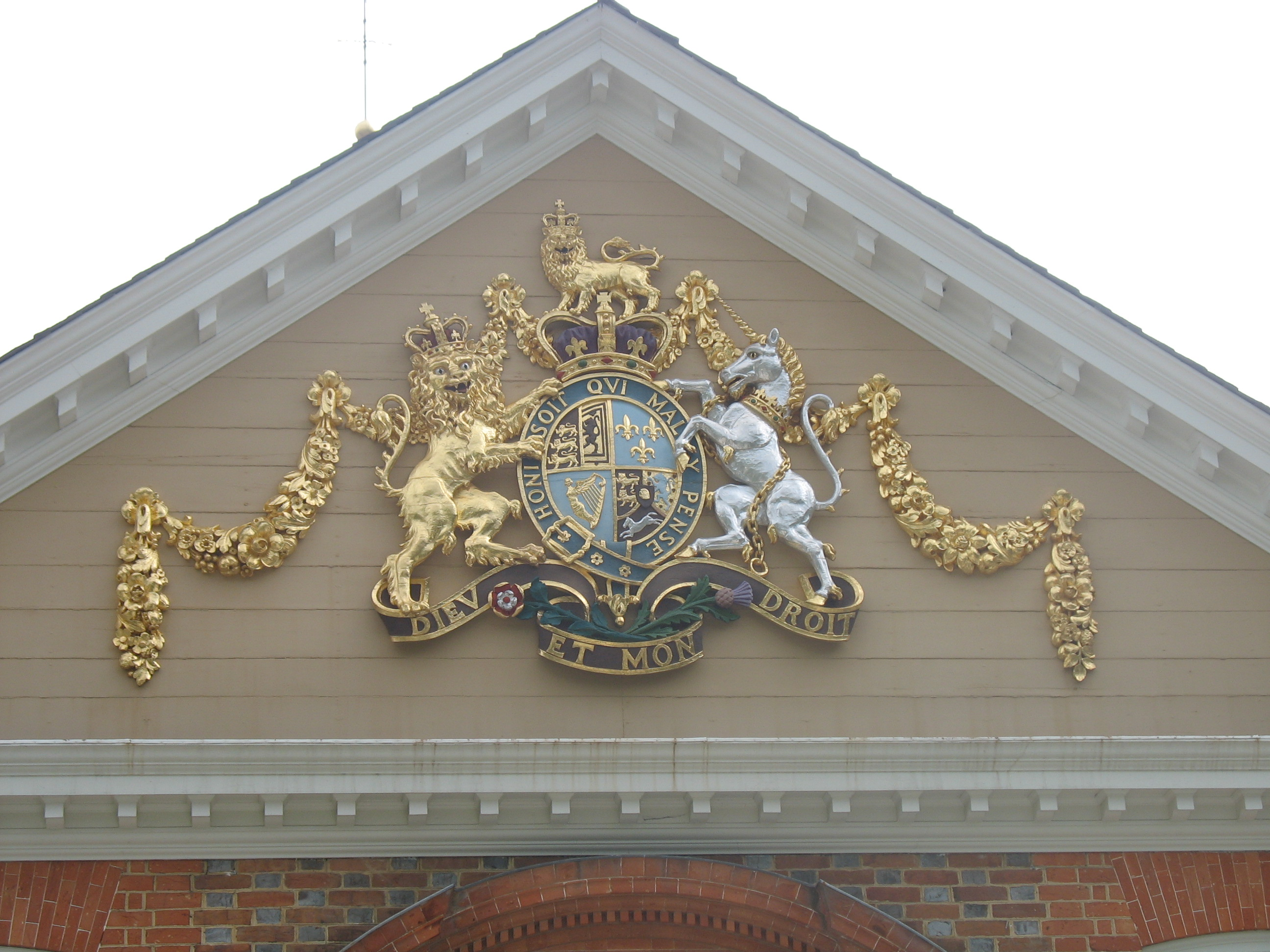 The royal arms of King George I (r. 1714 – 1727) on the Governor's Palace in Williamsburg, Virginia at Colonial Williamsburg.